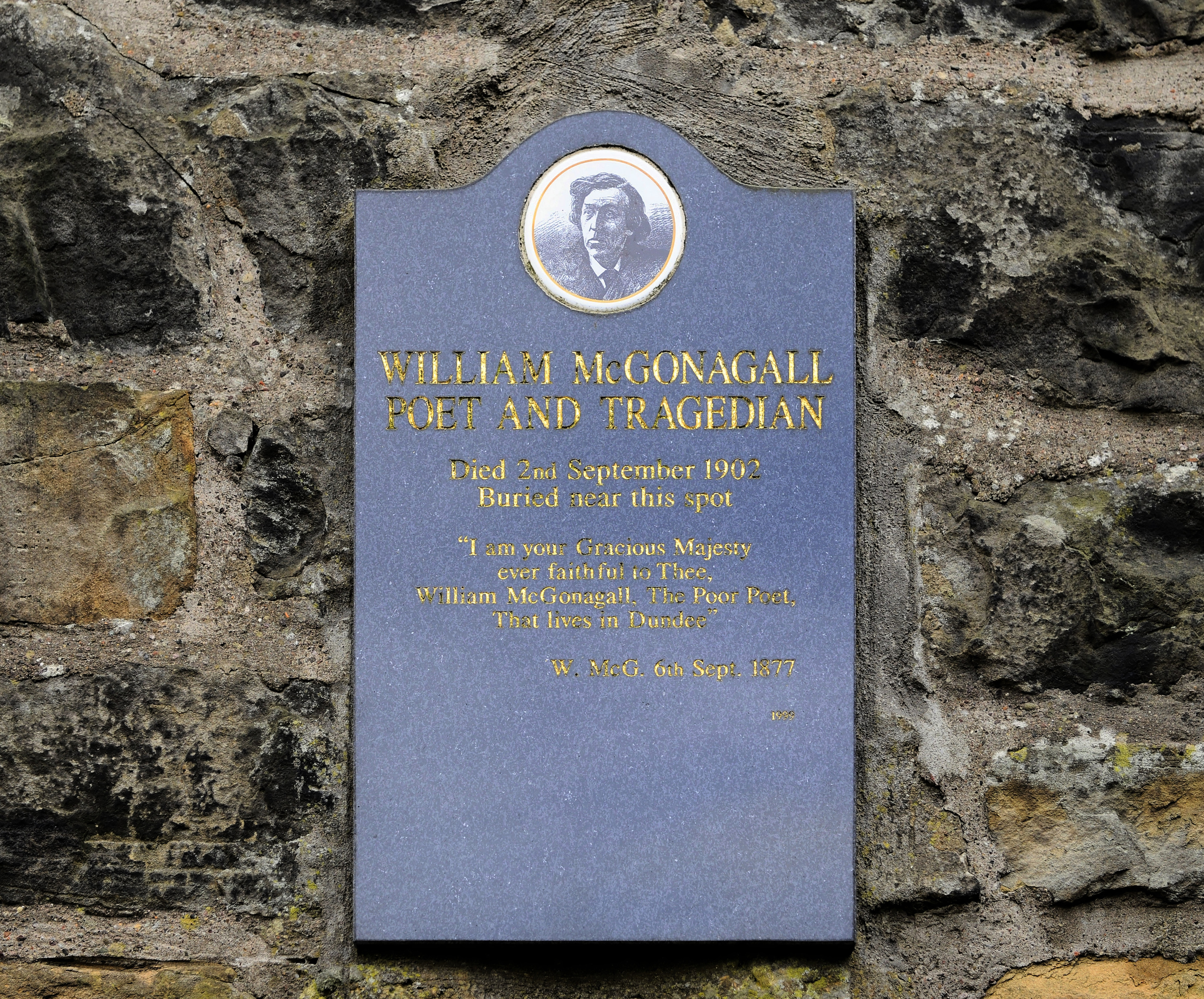 William McGonagall plaque, Edinburgh, Scotland.